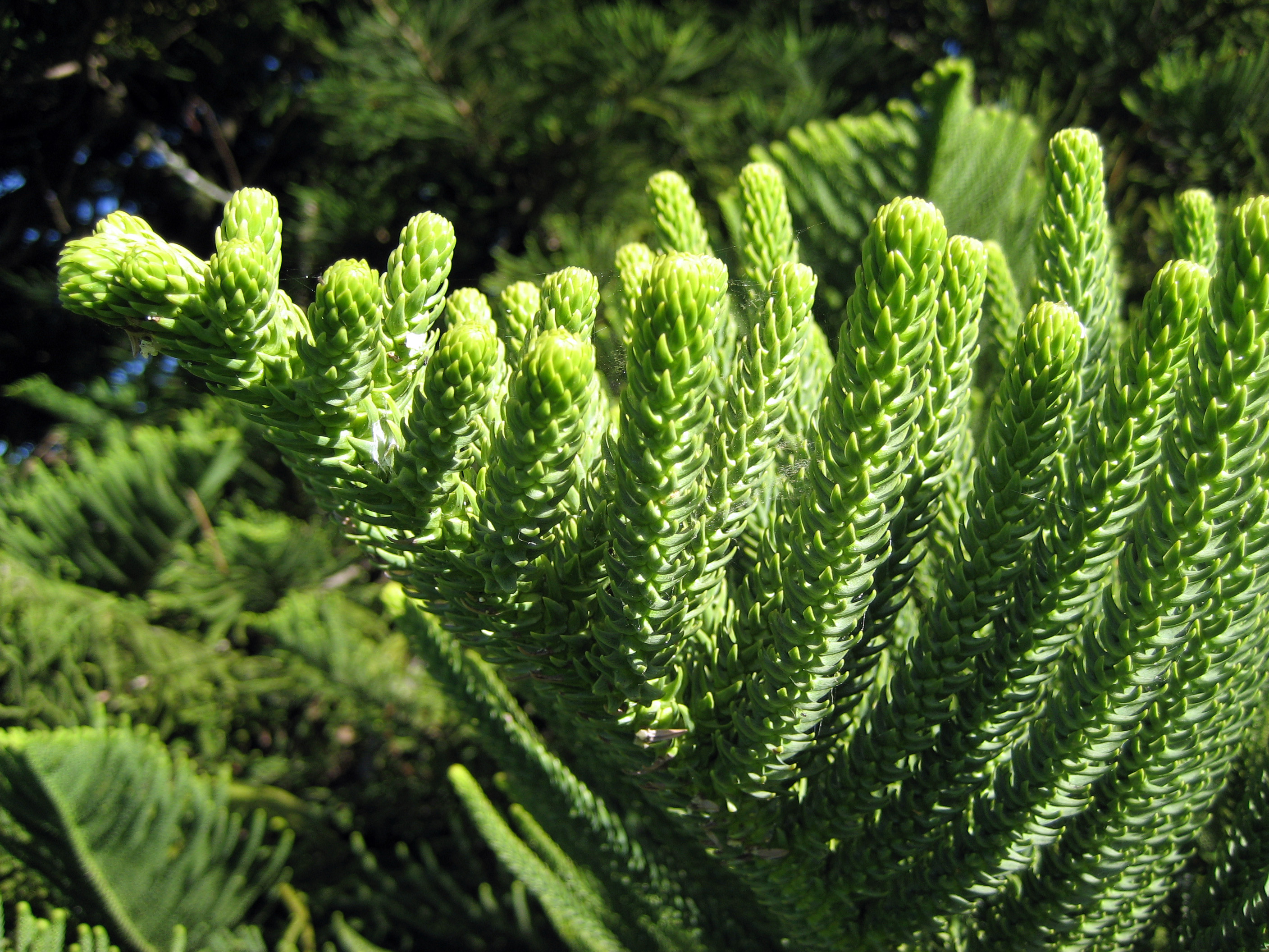 Araucaria heterophylla (Norfolk Island Araucaria), foliage from a mature specimen, Auckland, New Zealand. Taken at Monte Cecilia Park, Hillsborough, Auckland.